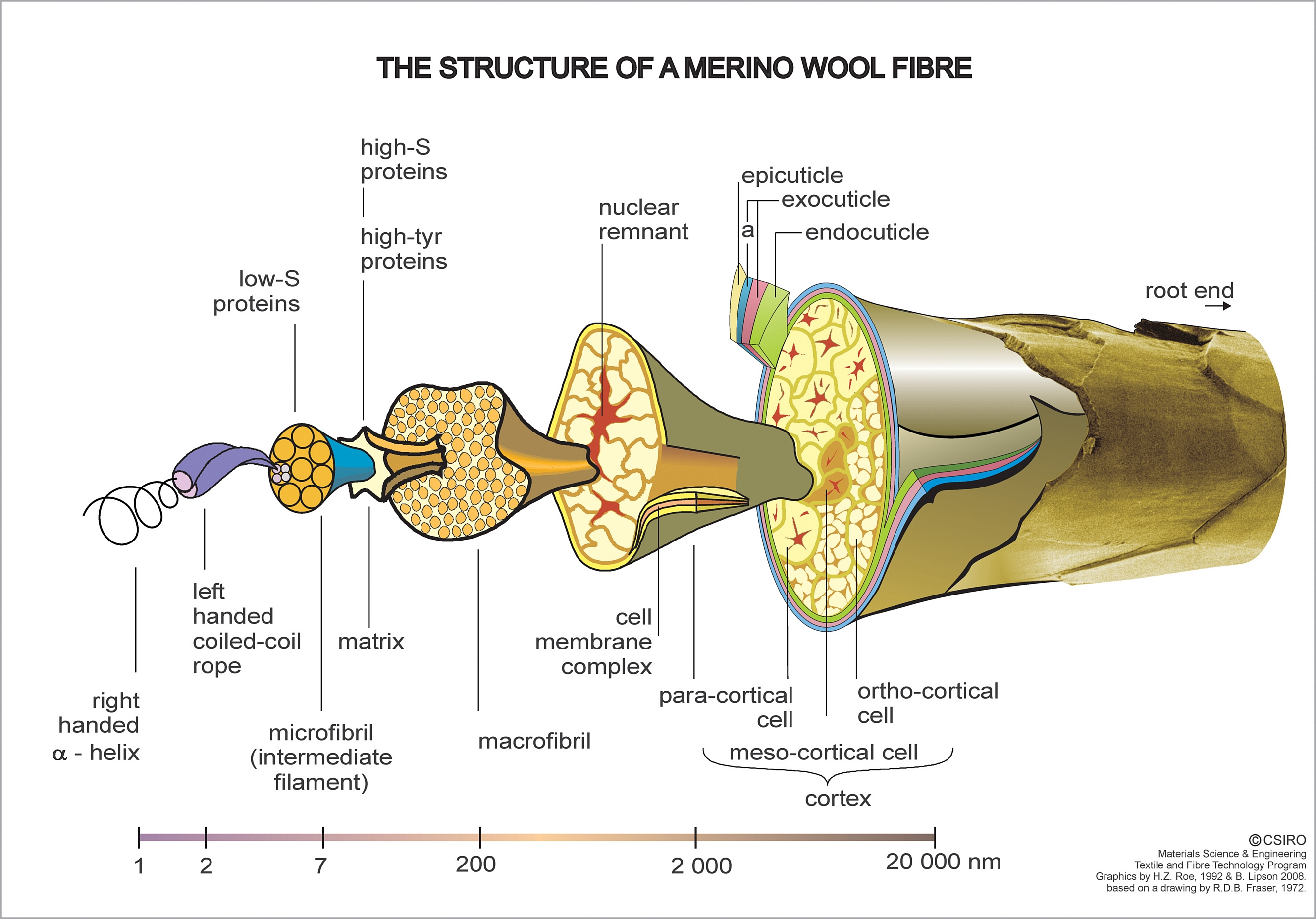 Schematic diagram of wool fibre structure